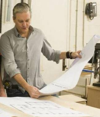 On May 2, 2013, The Fiver Foundation honored Best & Company co-founder Chip Brian for his ongoing commitment to helping New York’s young people build a strong foundation in life.